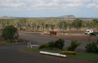 Lakeland Downs, Cape York, Queensland, Australia